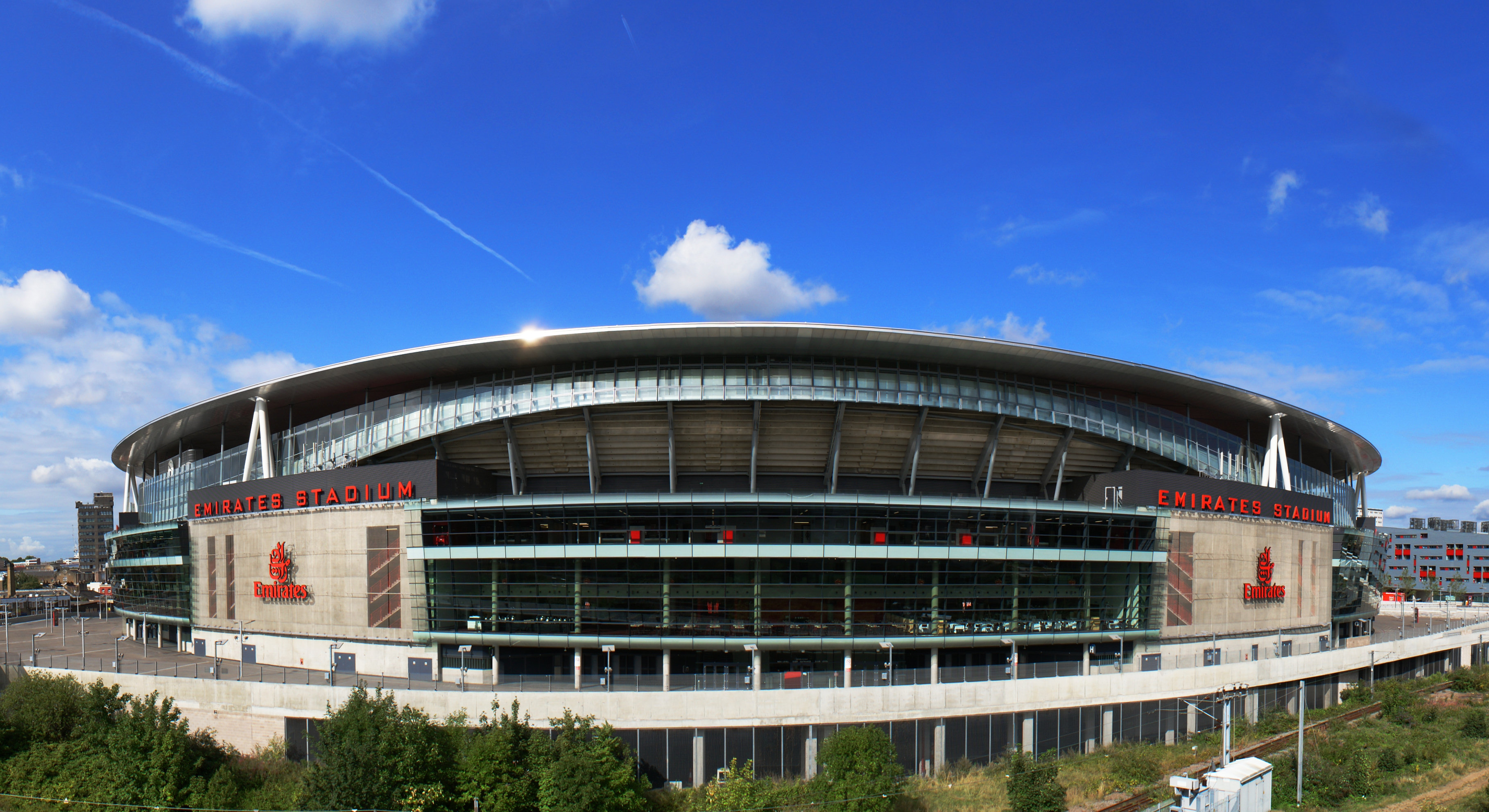 Stitched photo of the Emirates Stadium taken from my balcony. Composed from 11 photos taken in portrait mode.